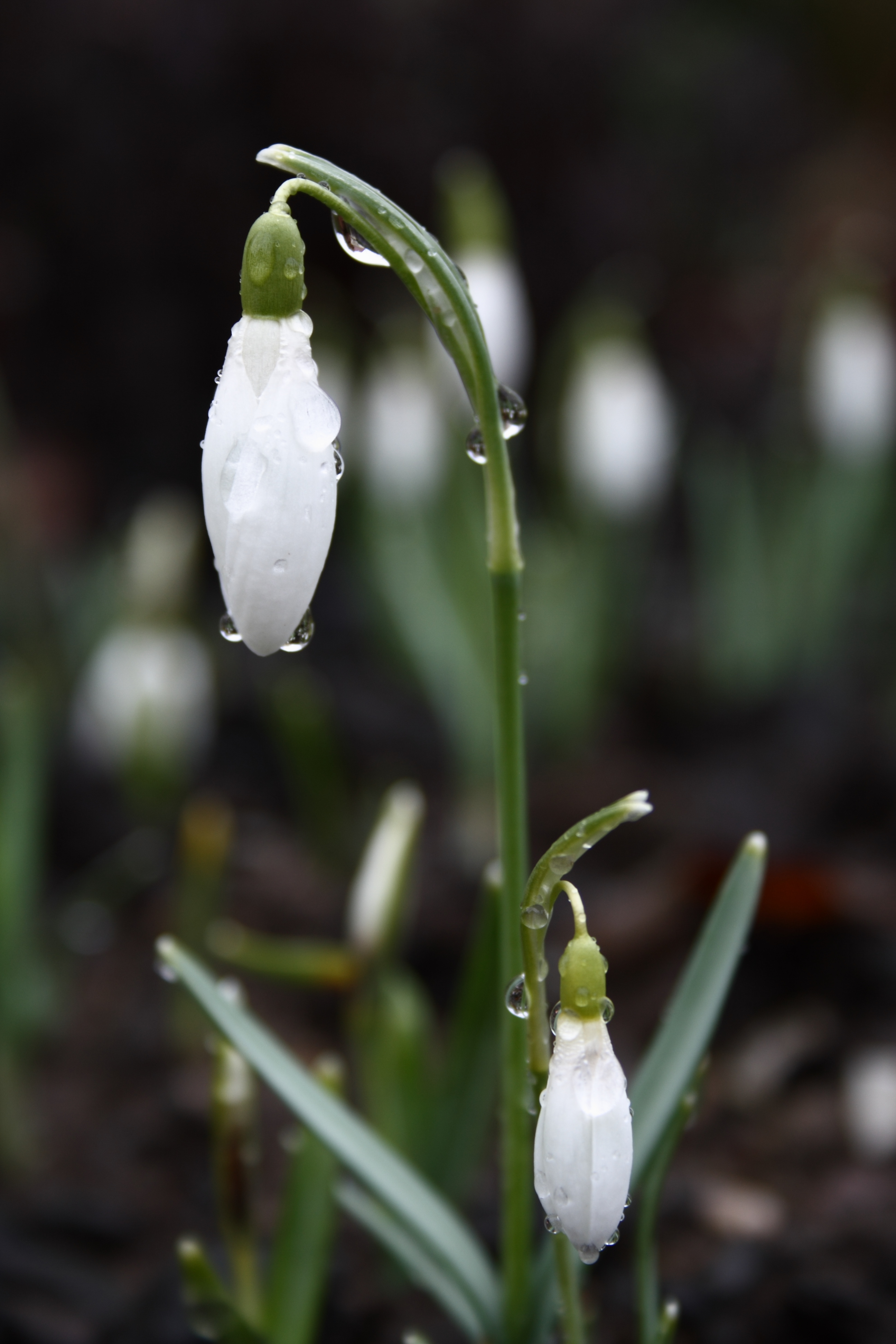 Snowtrop (Galanthus nivalis), closeup photograph. The entire plant can be seen. In the focus are 2 yet unopened blossoms covered in dewdrops.